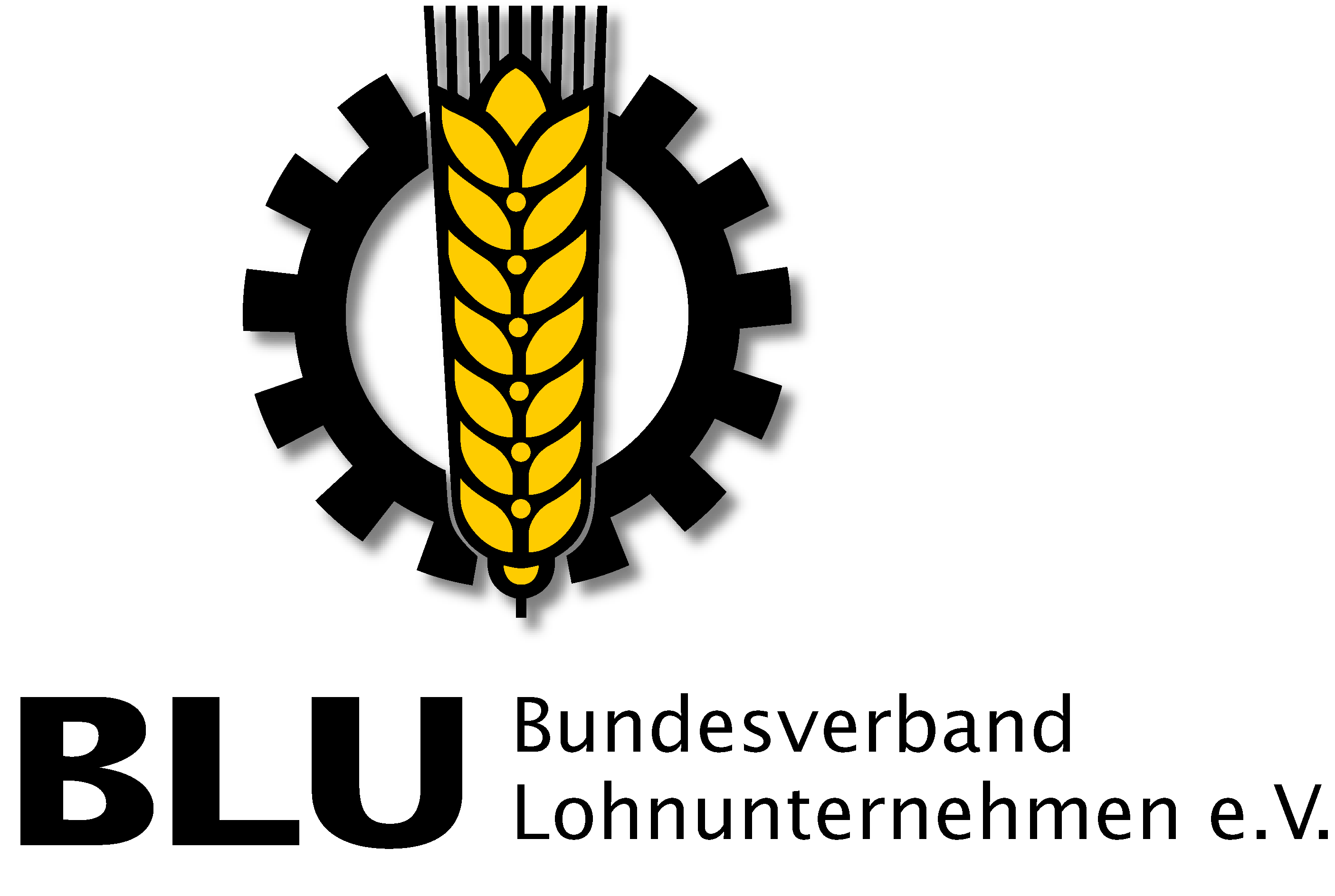 Logo BLU Bundesverband Lohnunternehmen e.V.